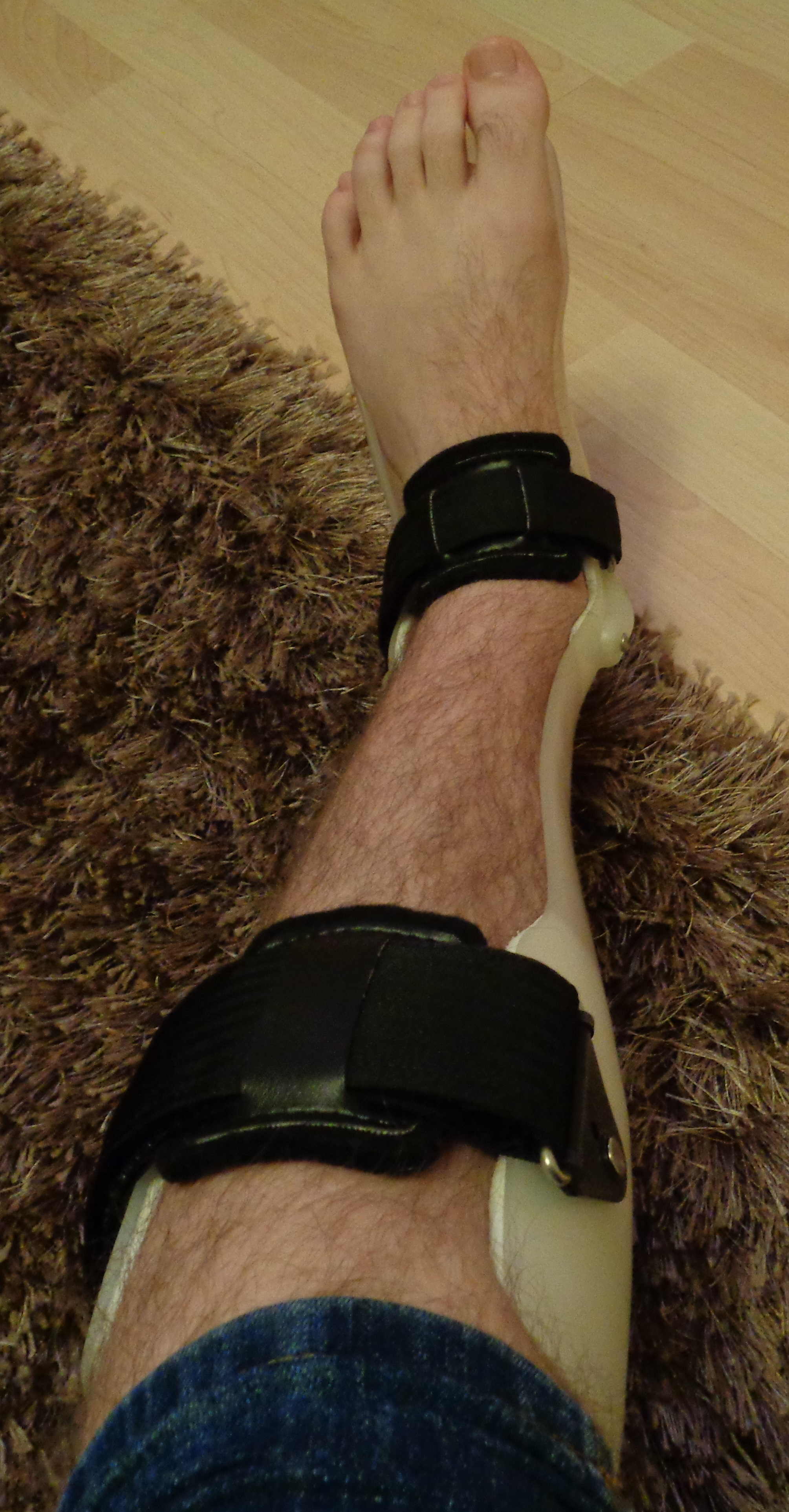 An Ankle Foot Orthosis (AFO) brace is a type of orthotic. Here it is being used to support the foot due to foot drop, caused by Multiple Sclerosis.